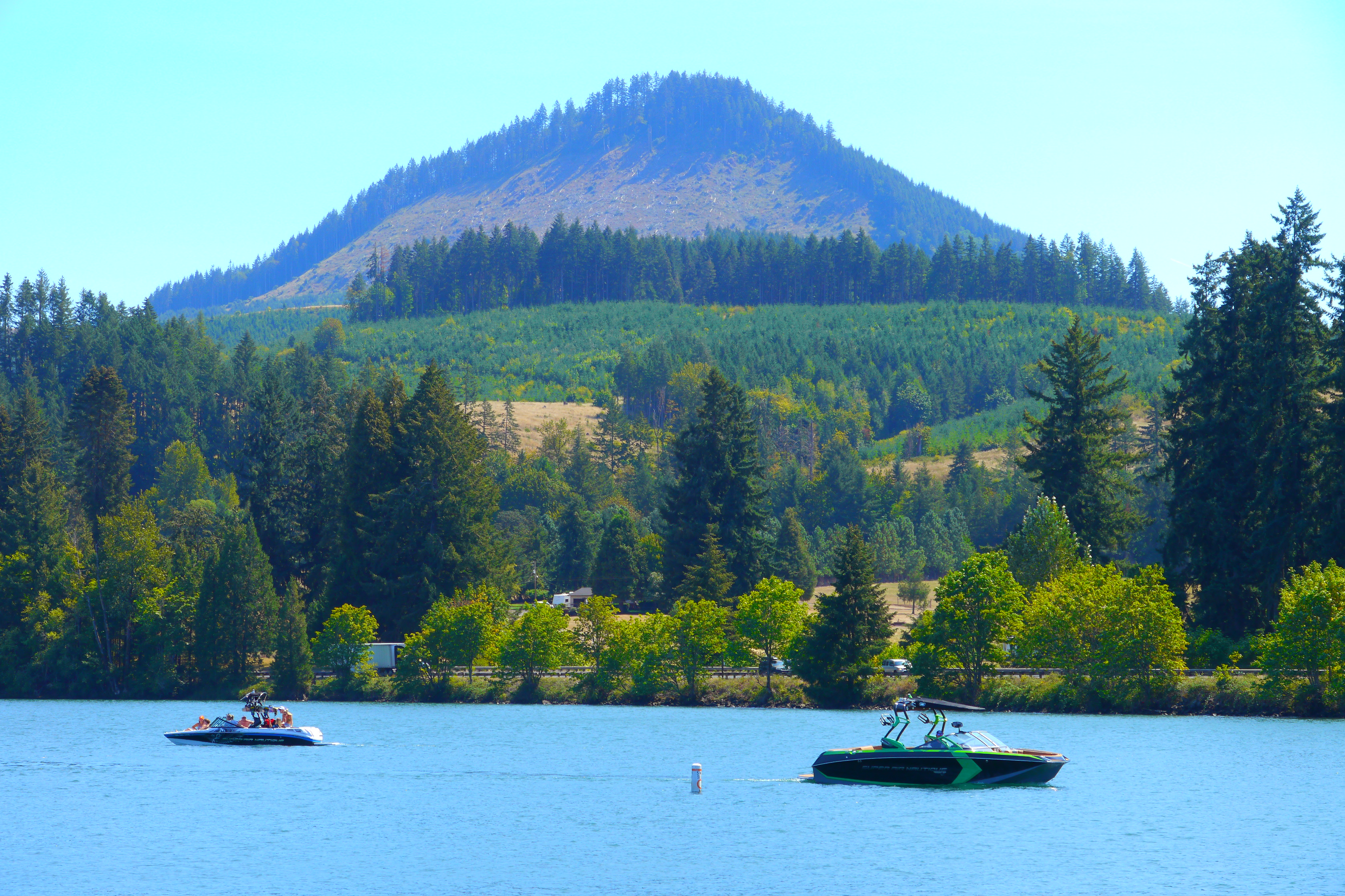 Dexter State Recreation Site, on the western edge of Dexter Reservoir, provides convenient access to the reservoir with docks and a two lane launch ramp. A picnic area with bbq stands and fire rings overlooks the lake. But the lake is not the only attraction! A popular 18-hole disc golf course winds it way through oaks and Douglas fir trees and you can reach nearby Elijah Bristow State Park through a system of connecting trails that follow the Middle Fork of the Willamette River. (